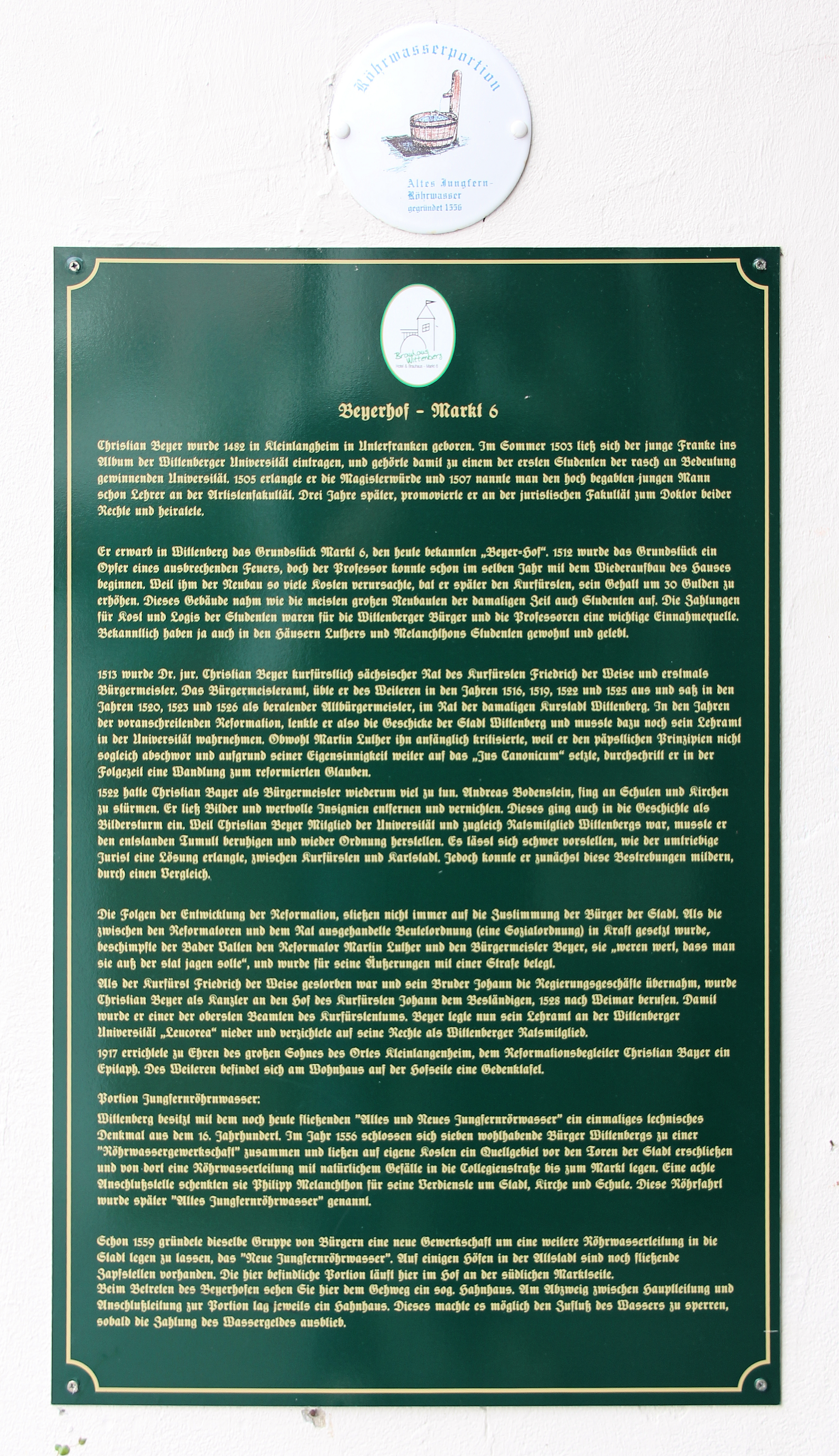 Memorial plaque, Beyerhof, Markt 6, Lutherstadt Wittenberg, Germany Koordinate:51°51′57″N 12°38′38″E / 51.86583°N 12.64389°E